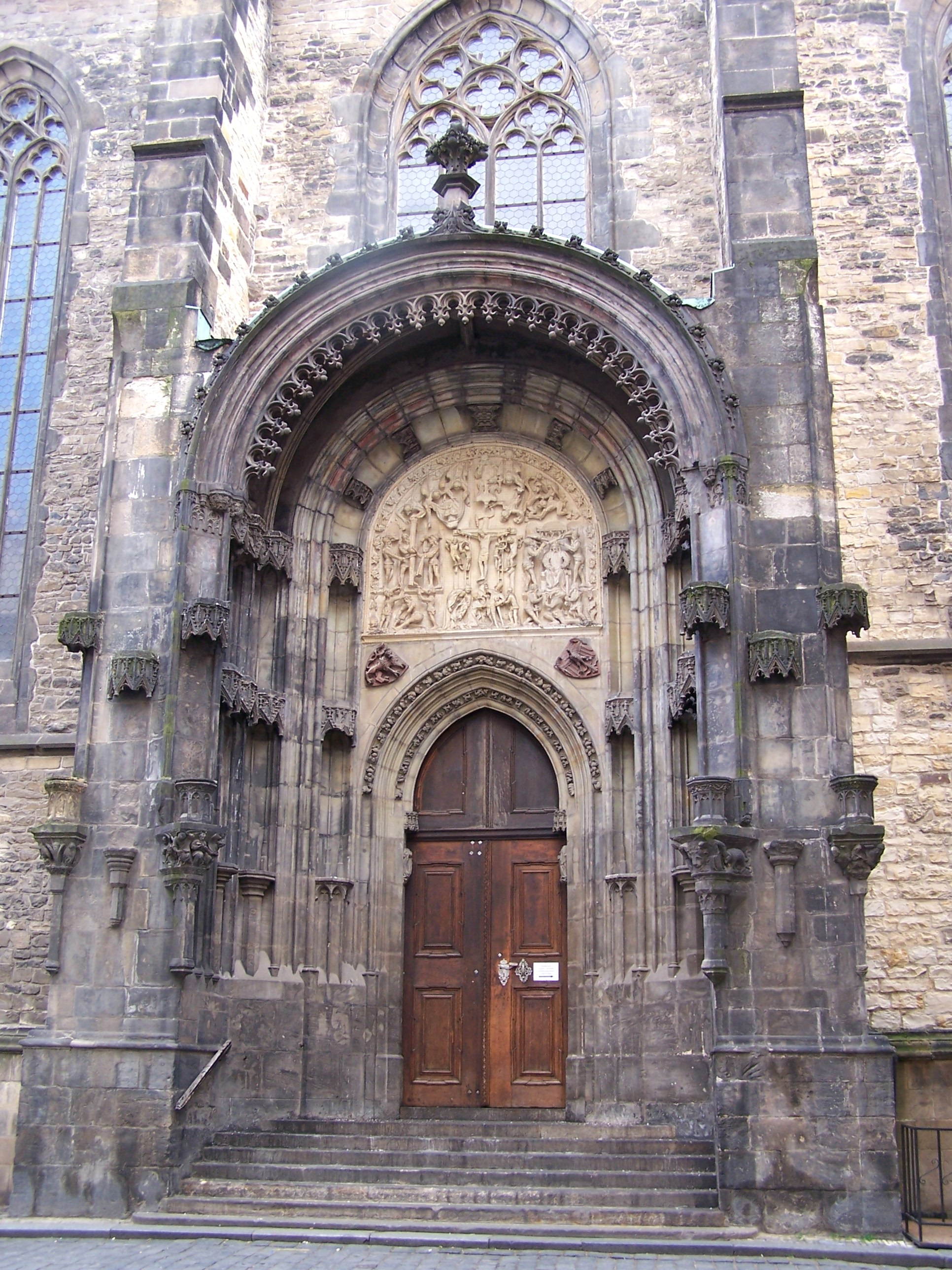 Northern portal of the Church Our Lady in front of Týn in Prague.